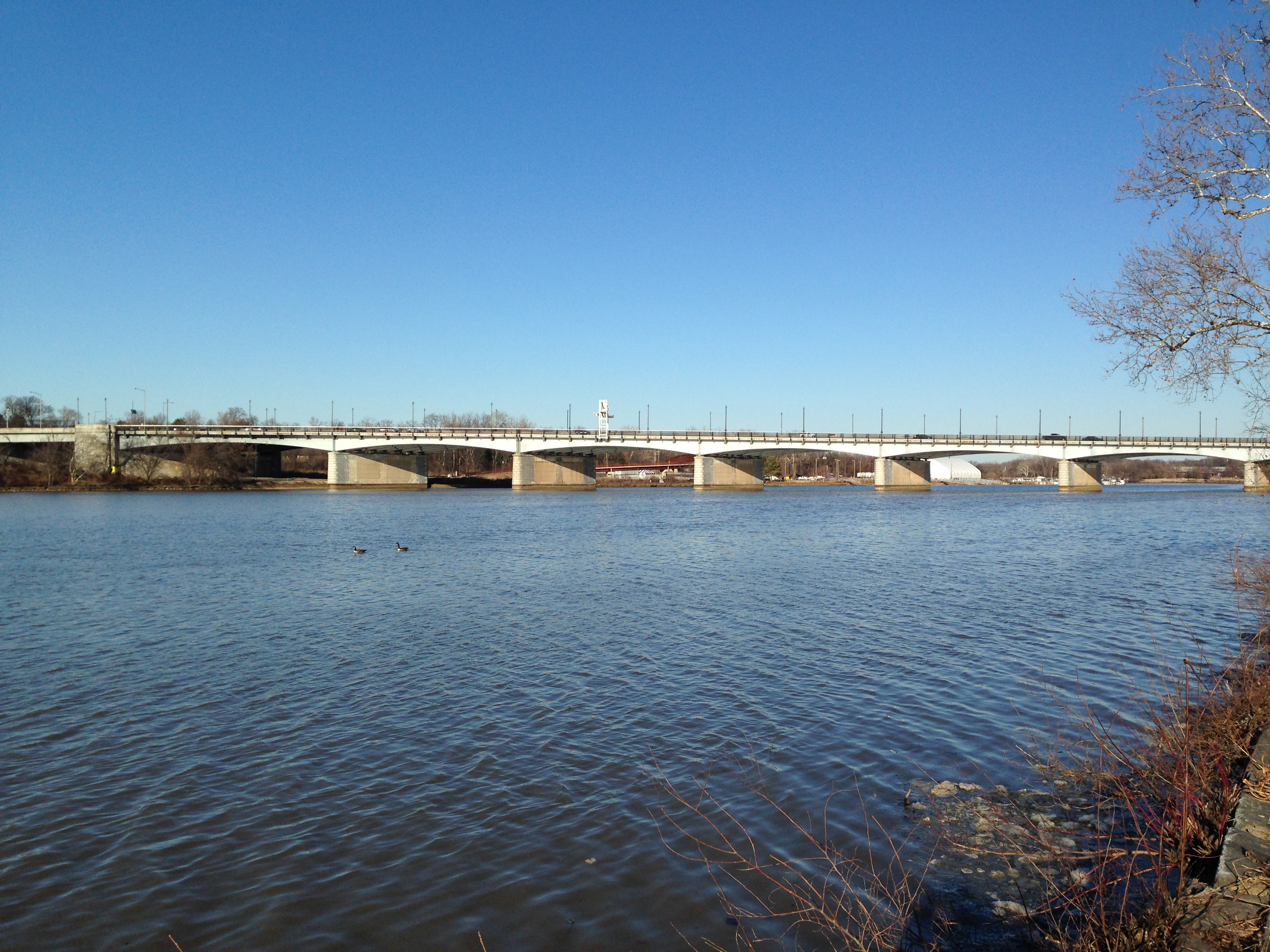 The John Philip Sousa Bridge over the Anacostia River in Washington, DC in January 2015